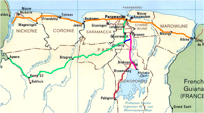 This is an annotated map of Suriname with the main roads marked in colour: Orange: East-West Link Green: Southern East-West Link Dark blue: Desiré Delano Bouterse Highway Magenta: Afobakaweg Red: Road to Pokigron